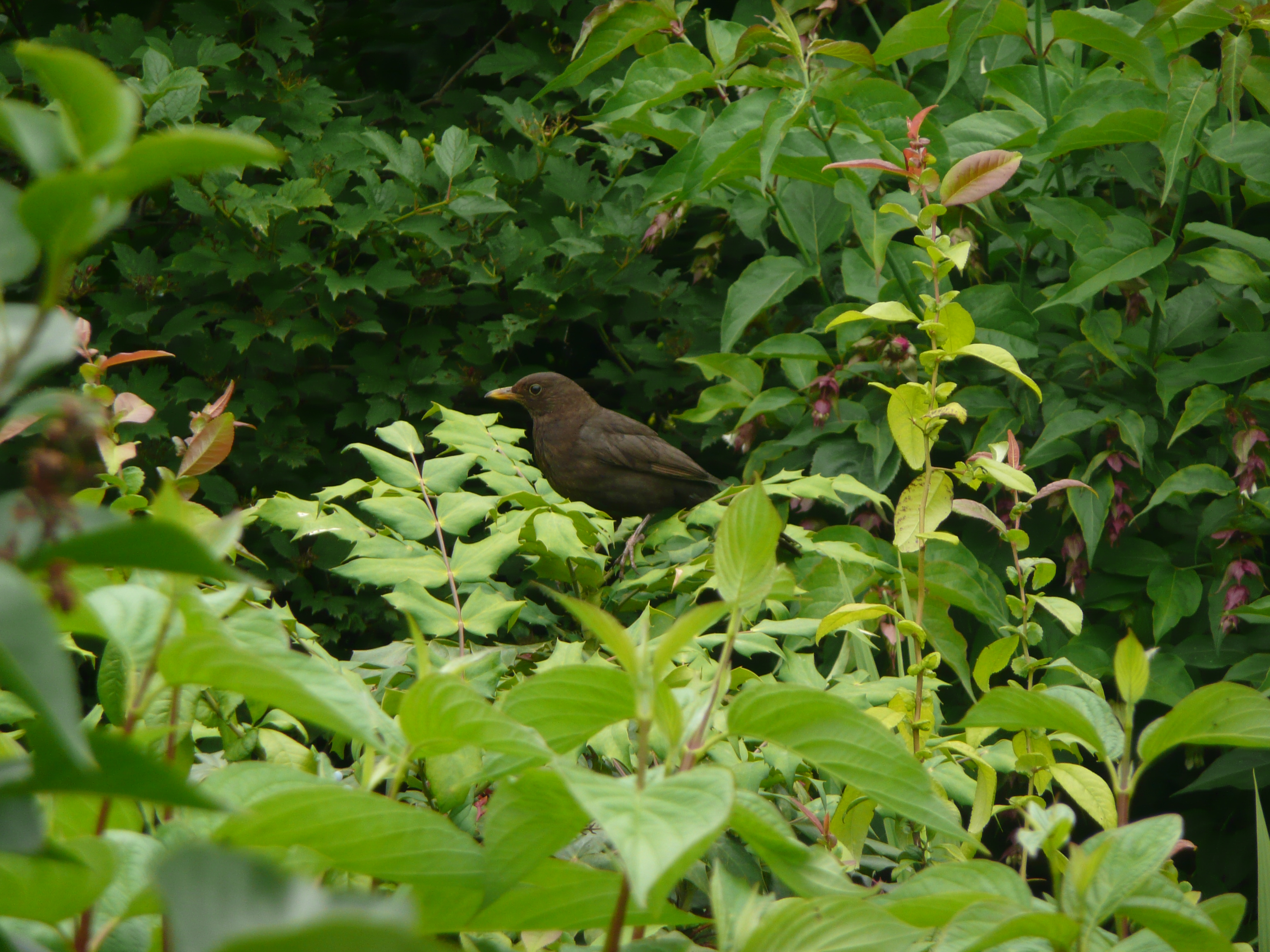 Images from Culpepper Community Garden, London